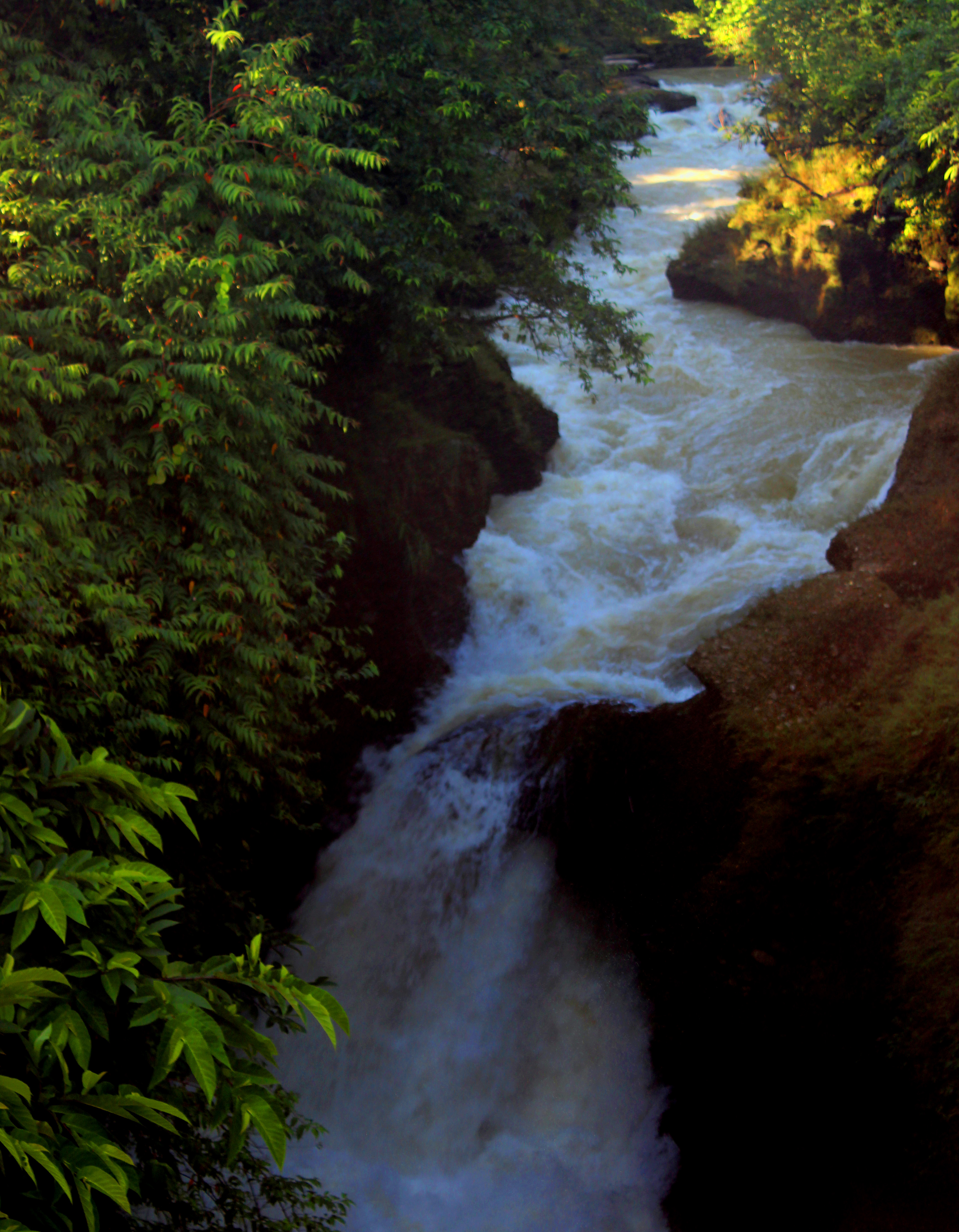 Davis Fall is a waterfall having length of 500 meters and depth of 100 feet. It is a popular site for tourists which is located at Pokhara, Nepal. On 1961, a Swiss citizen named Davi drowned in the pit while swimming, and hence her father wished the fall to be named as "Davi."